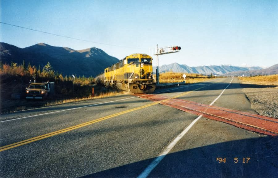 Intersection with Highway No3, 64.218998,-149.268354